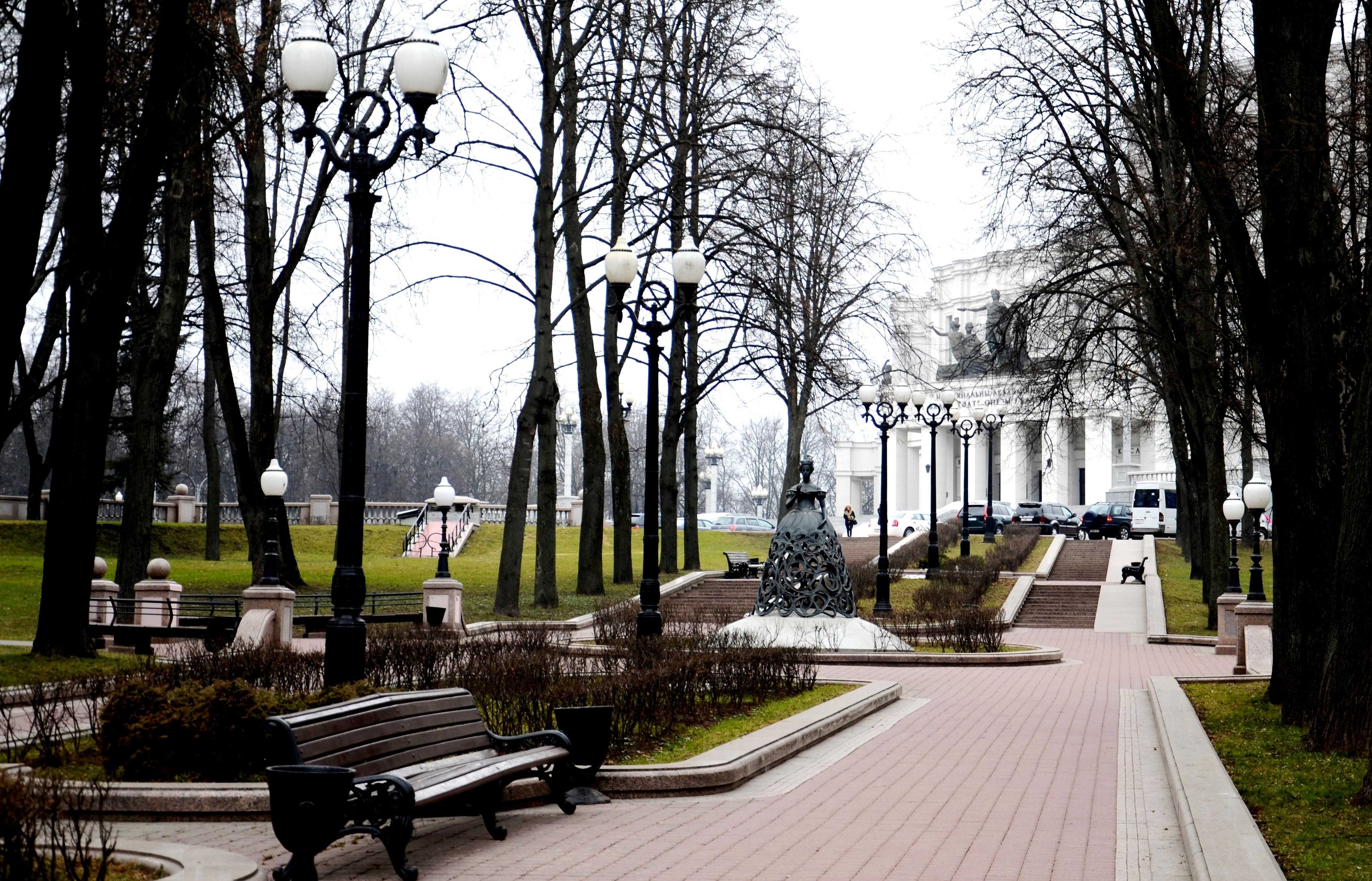 The alleya conducting to Opera and ballet theater in Minsk, with a sculpture "the Muse of the Opera" Konstantin Selikhanov, created in 2008.